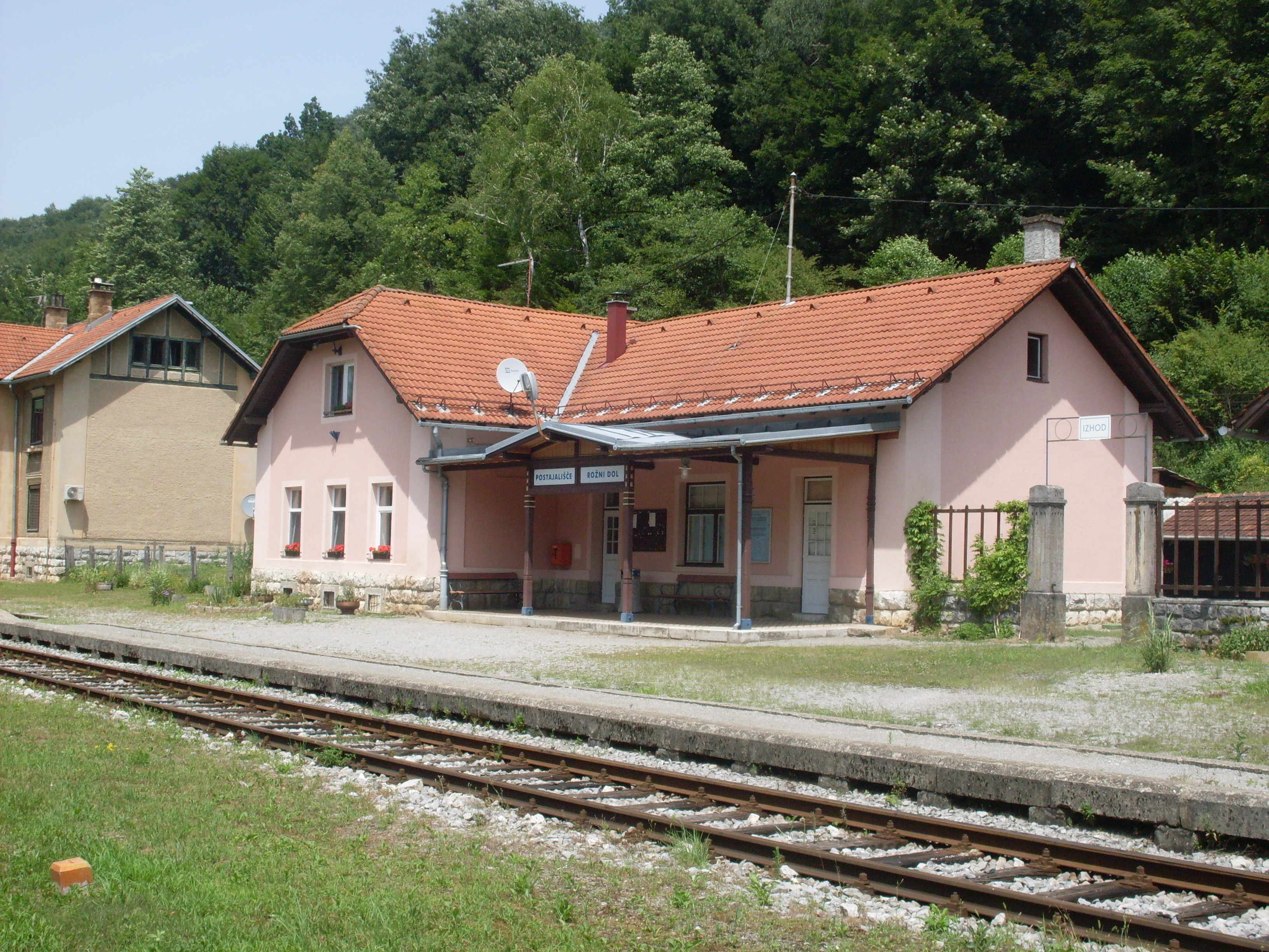 Railway halt in Rožni DolSlovenščina: Železniško postajališče Rožni Dol